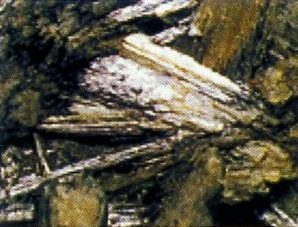 This is mineral Thremolite